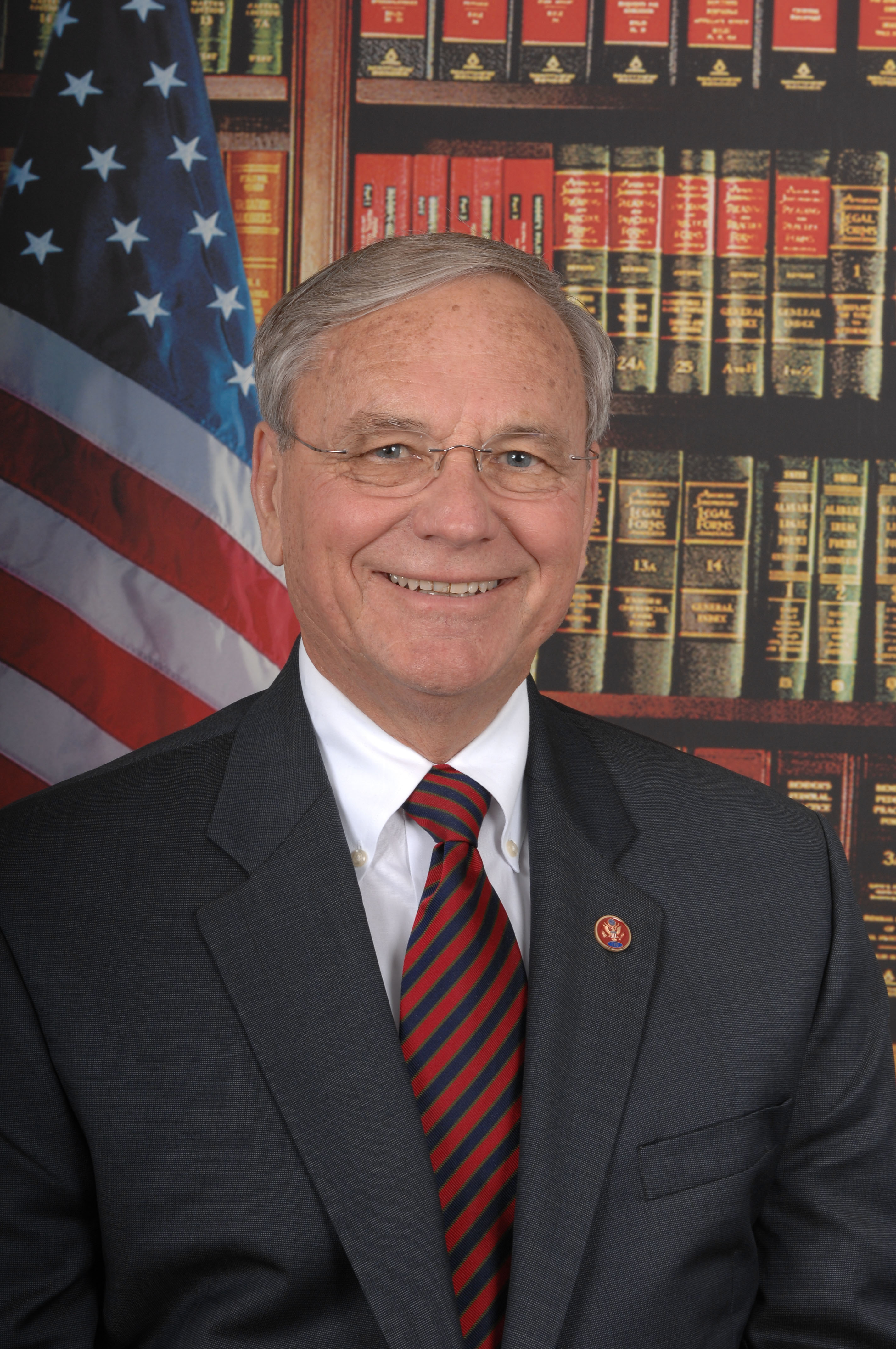 Harry Mitchell, member of the United States House of Representatives